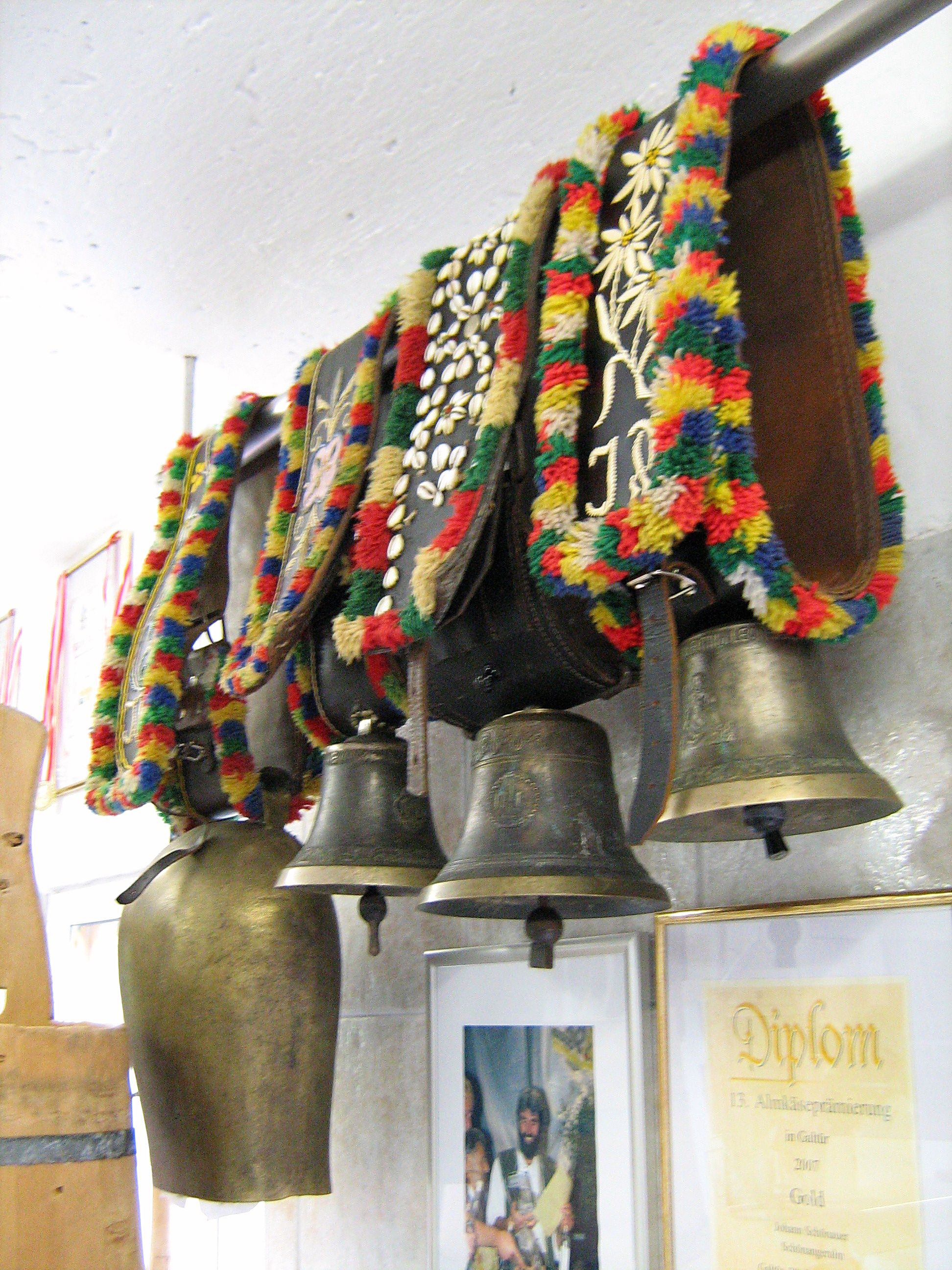 Cowbells. Picture taken in Wildschönau in Austria. August 2012.